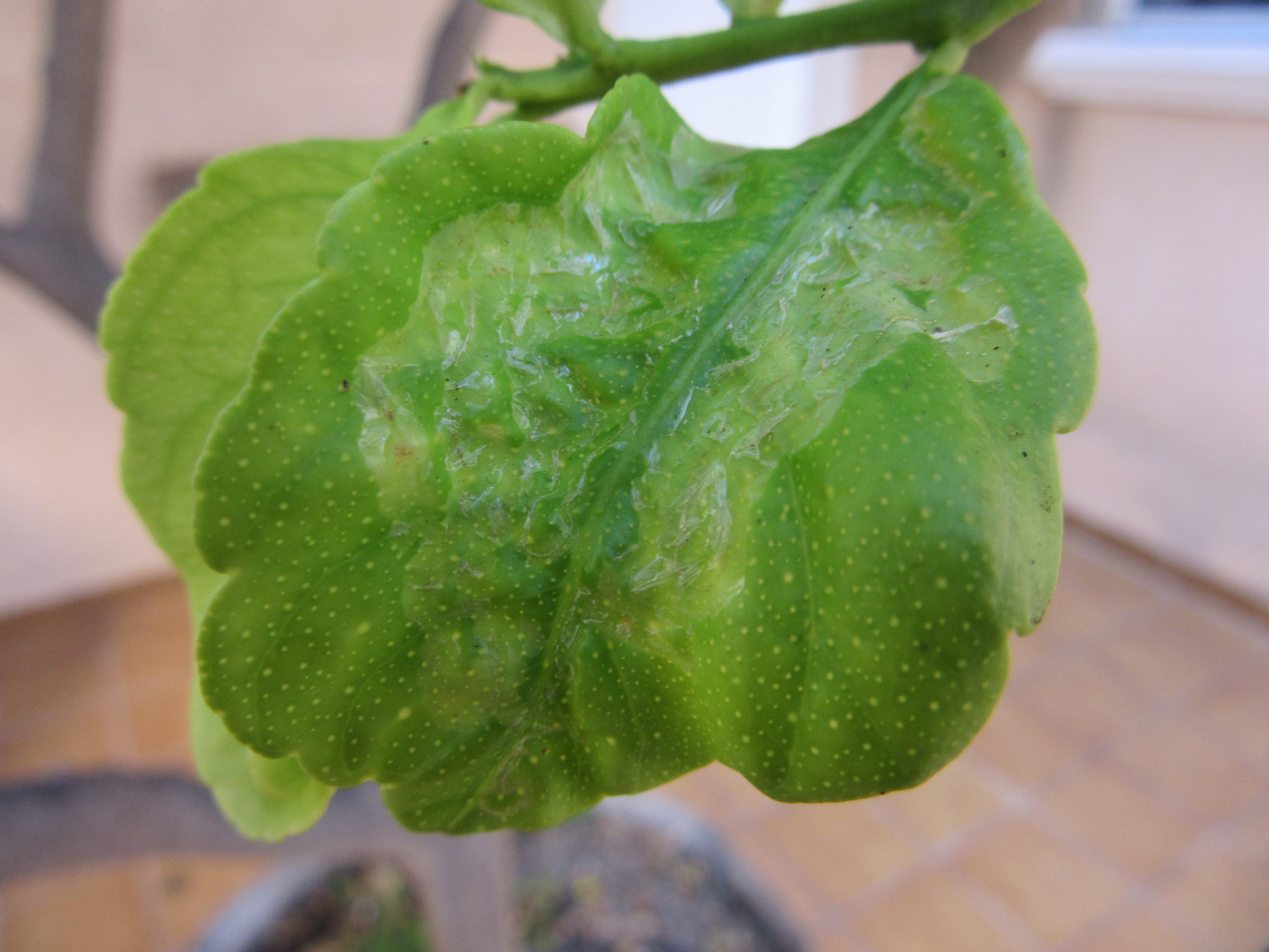 Galerías de Phyllocistis citrella en brote de limonero. Nótese el brillo característico de la hoja.